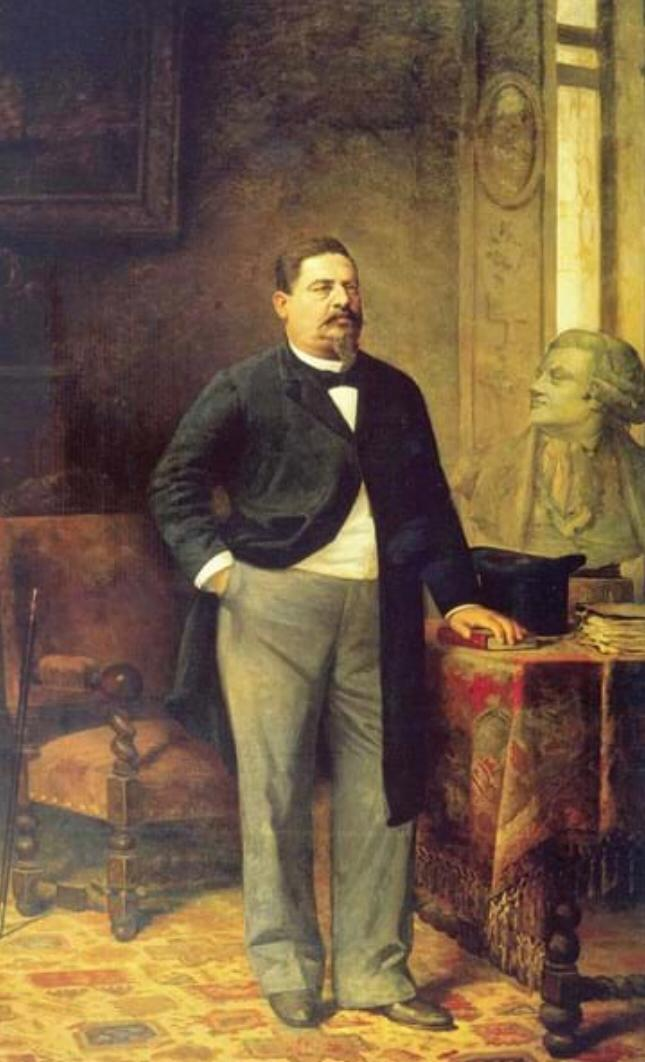 El presidente Raimundo Andueza Palacio retratado por el pintor Antonio Herrera Toro.